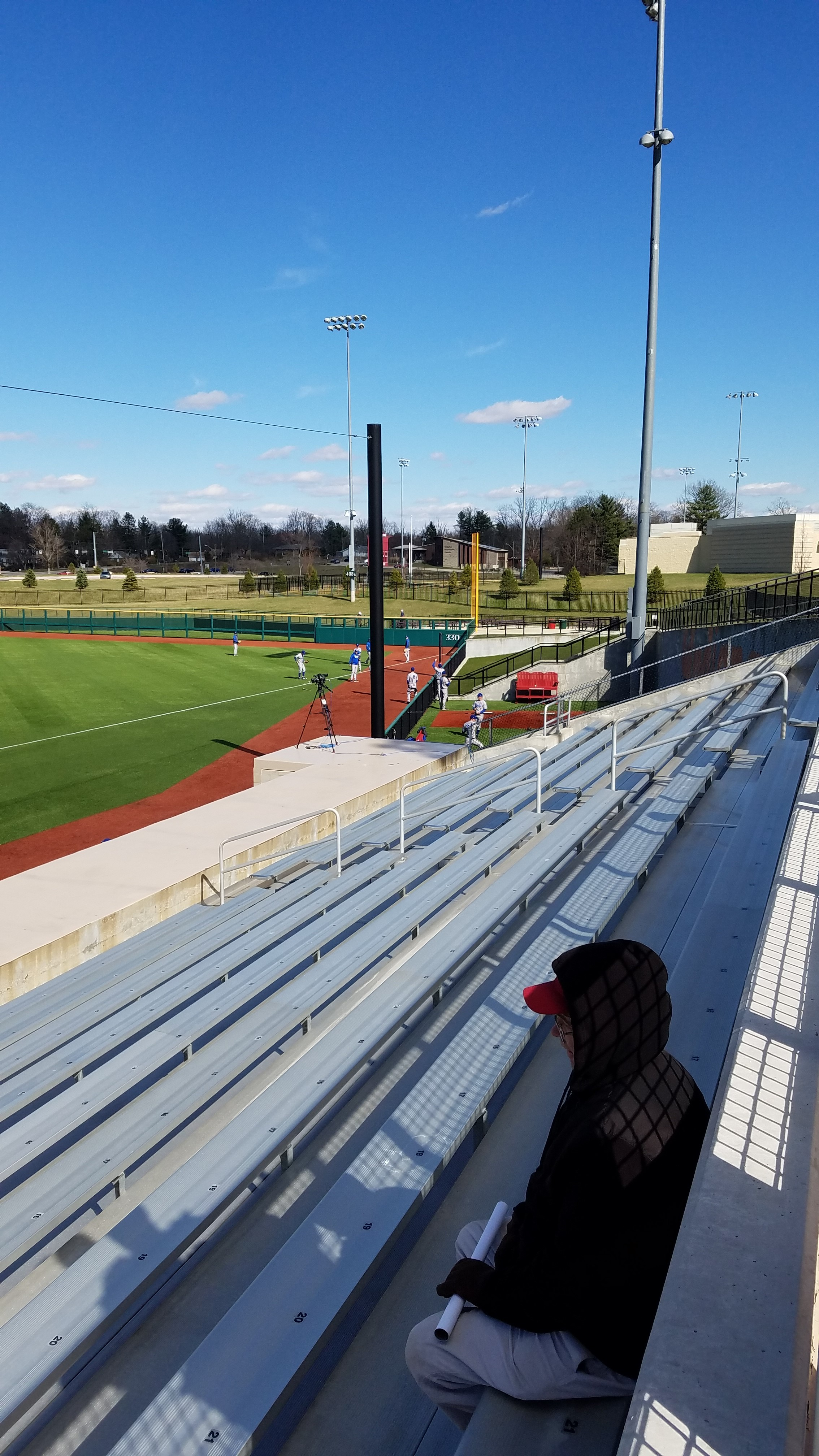 Right Field from South stands